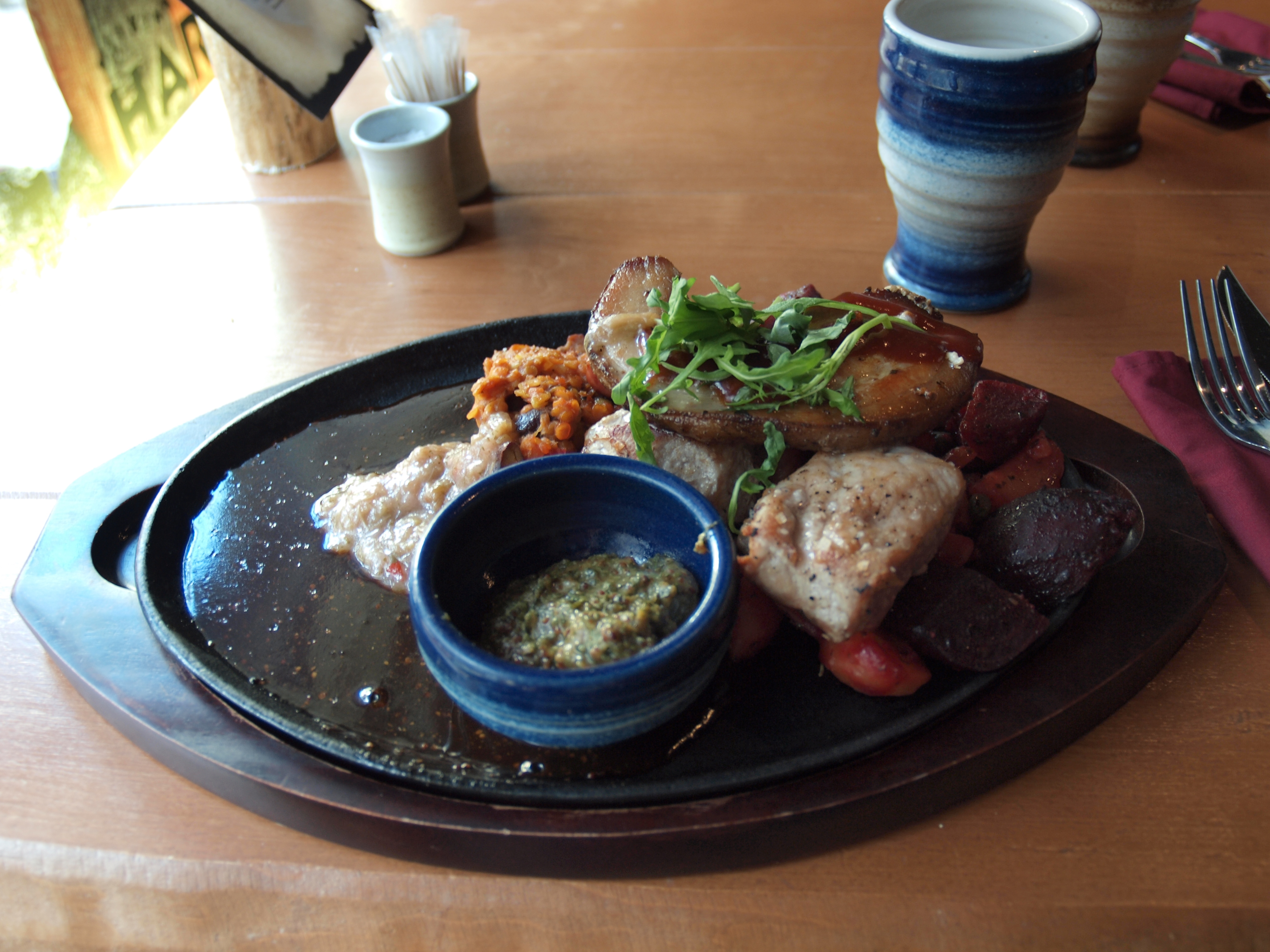 A restaurant dish consisting of wild boar steak, wild boar sausage, roasted vegetables, lentils, sauces, and nettle mustard, at restaurant Harald, Helsinki, Finland.